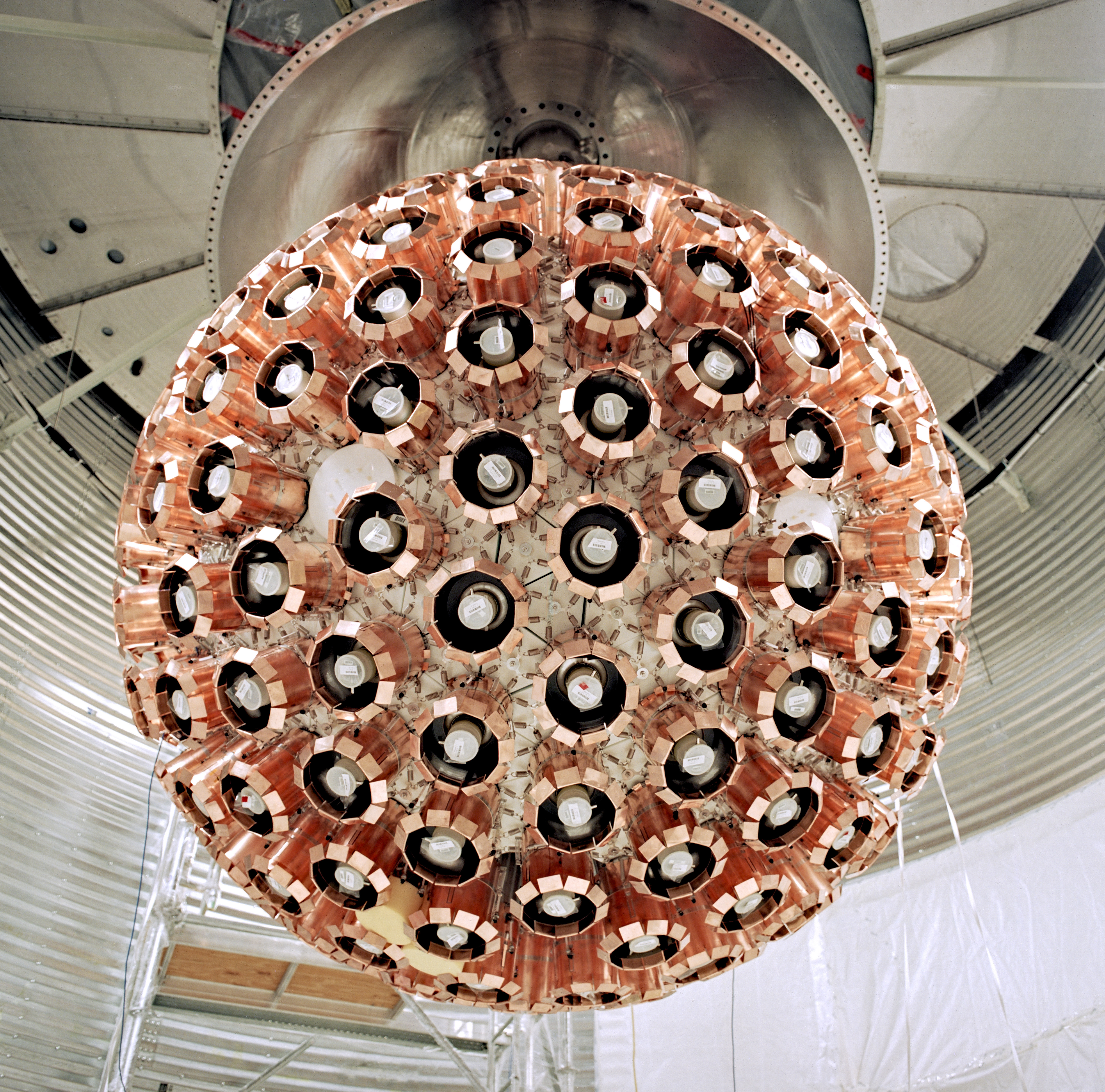 The DEAP 3600 detector under construction.